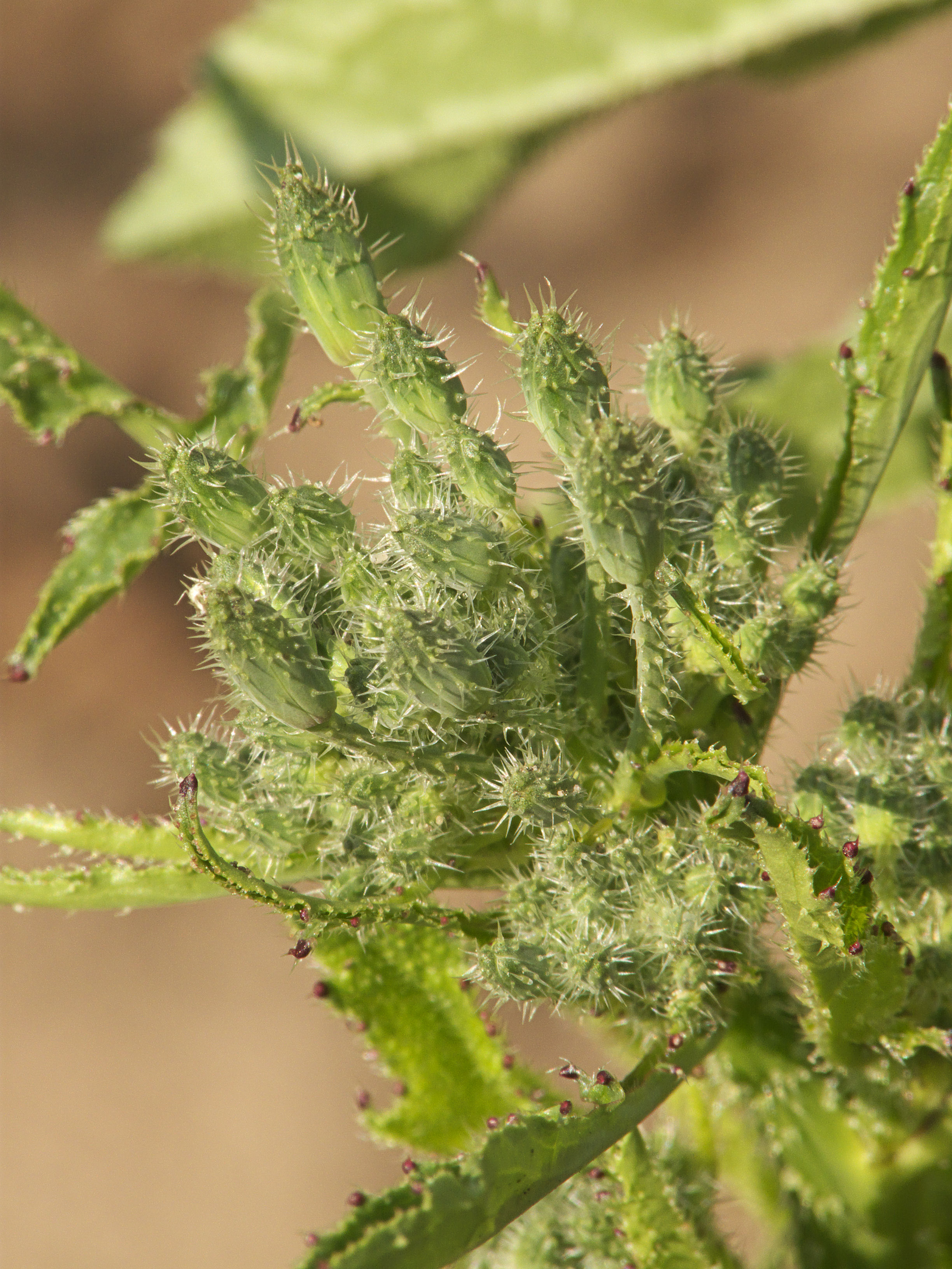 Raphanus sativus subsp. oleiferus inflorescense